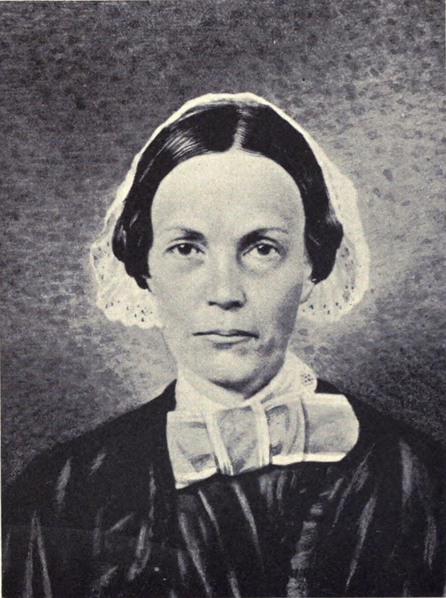 Ursula Sophia Newell Emerson (September 27, 1806 – November 24, 1888), wife of Rev. John S. Emerson and mother of Nathaniel Bright Emerson and Joseph Swift Emerson.